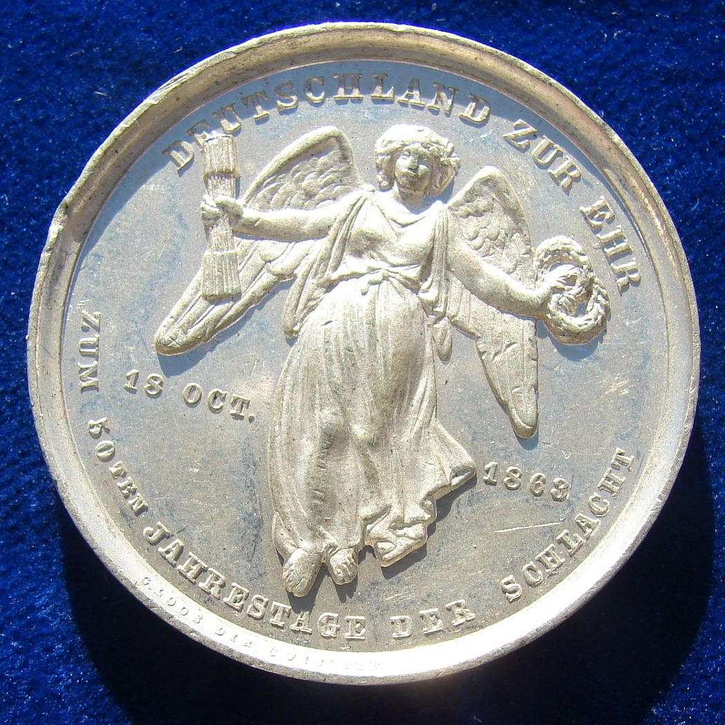 50th Anniversary Medallion d.= 40 mm. The Battle of Leipzig or Battle of the Nations (German: Völkerschlacht